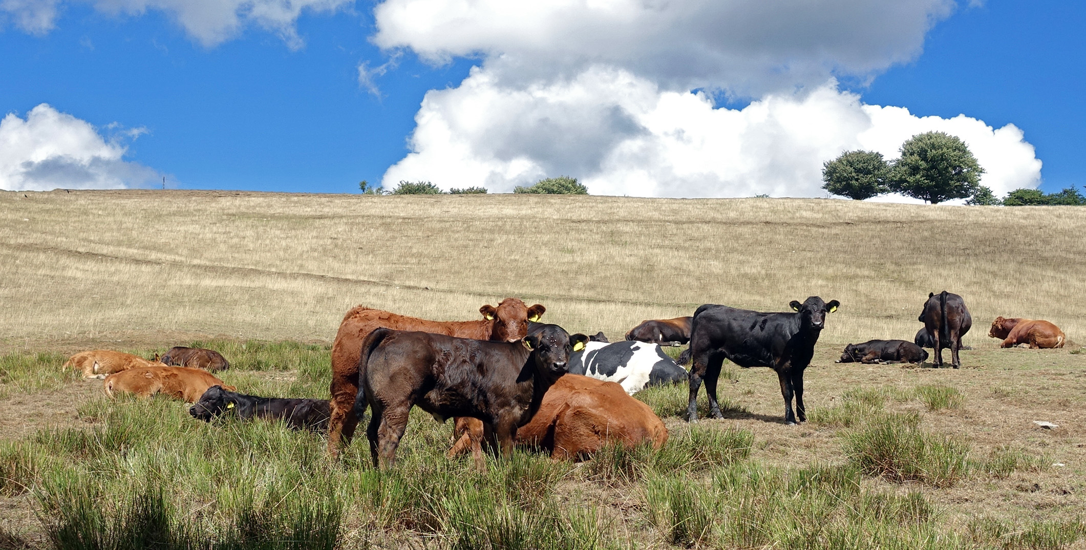 Cattle near Llanhilleth, Wales.